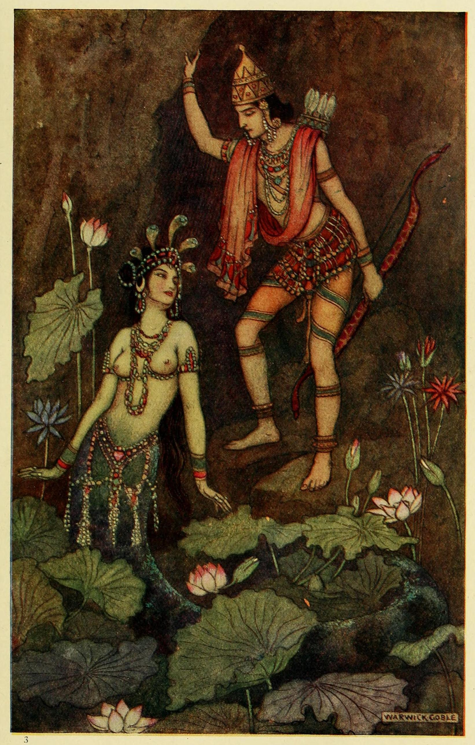 Author: Mackenzie, Donald Alexander, 1873-1936; Goble, Warwick Subject: Mythology, Hindu; Legends Publisher: London : Gresham Language: English Digitizing sponsor: Boston Library Consortium Member Libraries Book contributor: University of Connecticut Libraries Collection: uconn_libraries; blc; americana Full catalog record: MARCXML [Open Library icon]This book has an editable web page on Open Library.